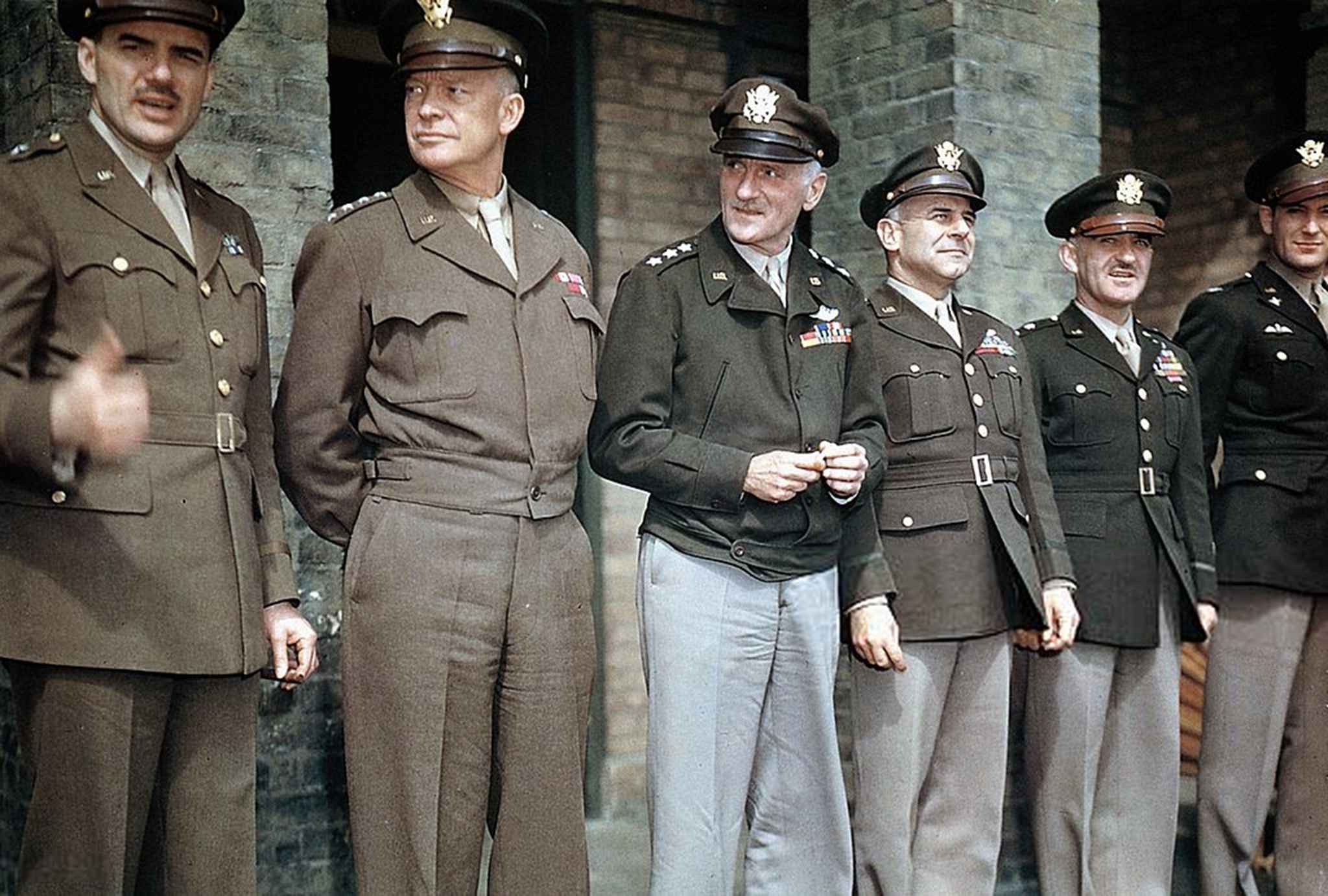 Brigadier General Jesse C Auton, General Eisenhower, General Spaatz, General Doolittle, Major General William Kepner and Colonel Blakeslee taken on the occasion of the awarding of the DFC Colonel Blakeslee and Captain Gentile. Debden, England.